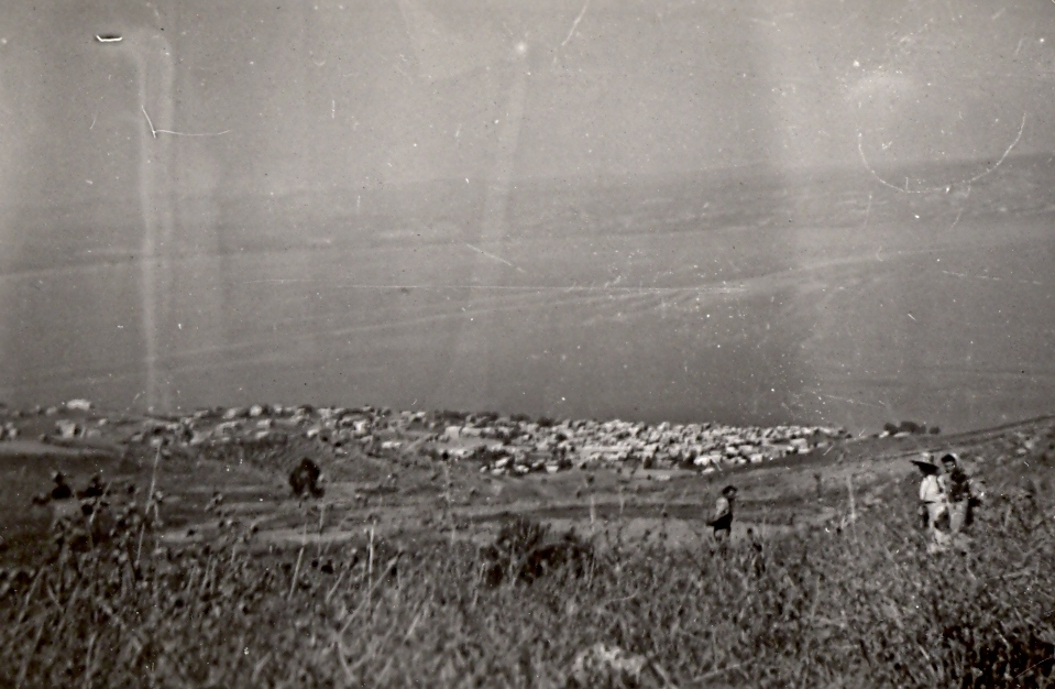 Geography of Israel